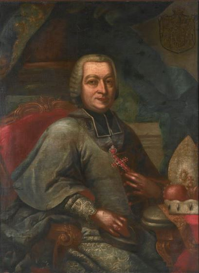 Franz Anton Joseph von Hausen-Gleichenstorff, prince-provost of Berchtesgaden from 1768 to 1780